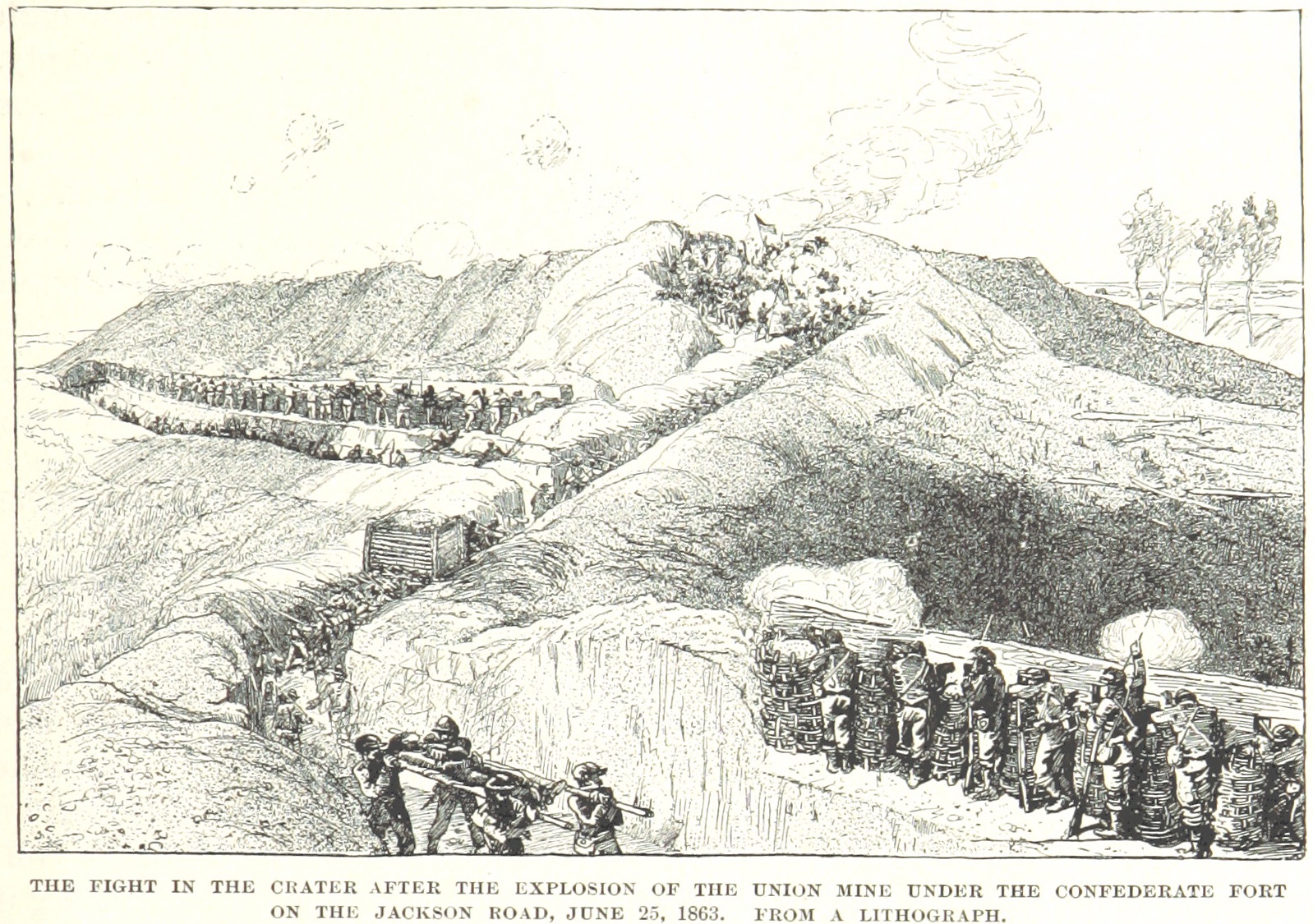 The fighting at the crater at the Third Louisiana Redan during the Siege of Vicksburg.